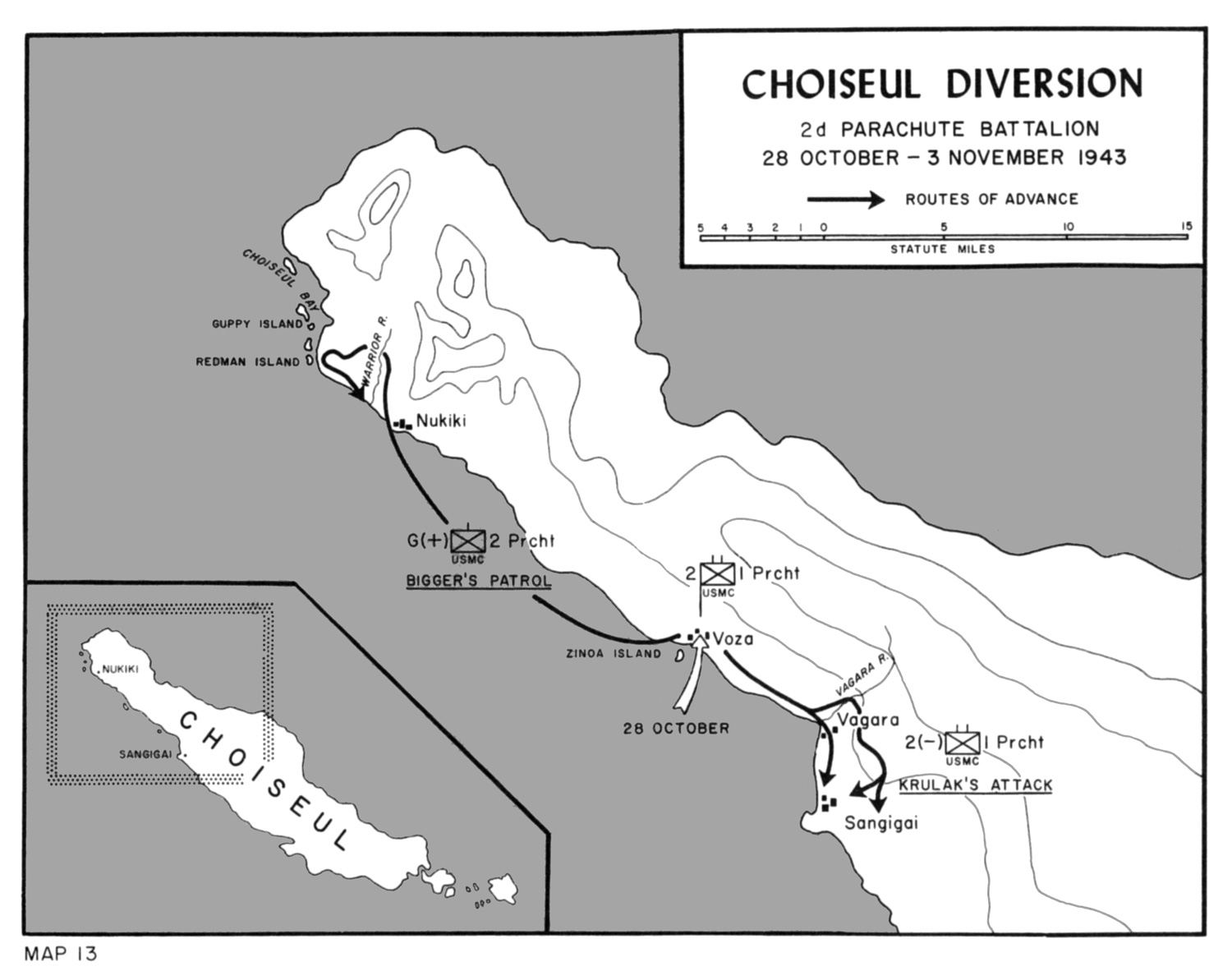 Map of U.S. Marine raid on Choiseul, October 28-November 3, 1943. Marine Corps History and Museums Division.